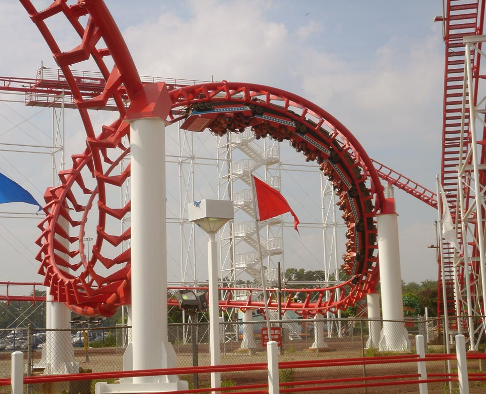 The Scream Machine rolls its riders through a corkscrew.